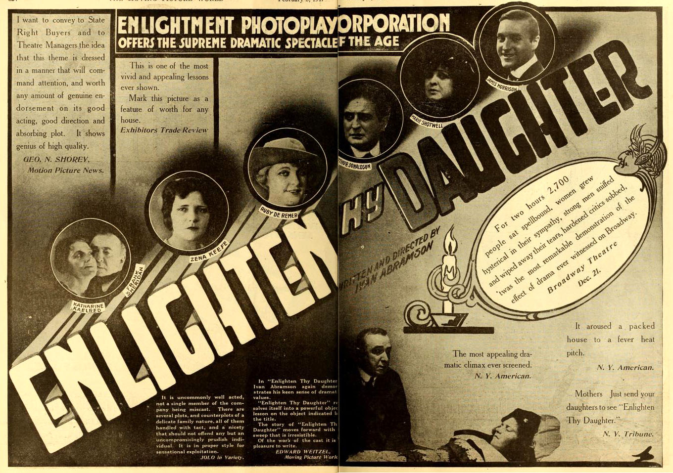 Advertisement in Moving Picture World for the film Enlighten Thy Daughter (1917).